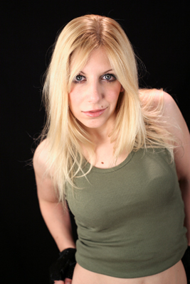 Personal photograph of actress Raine Brown